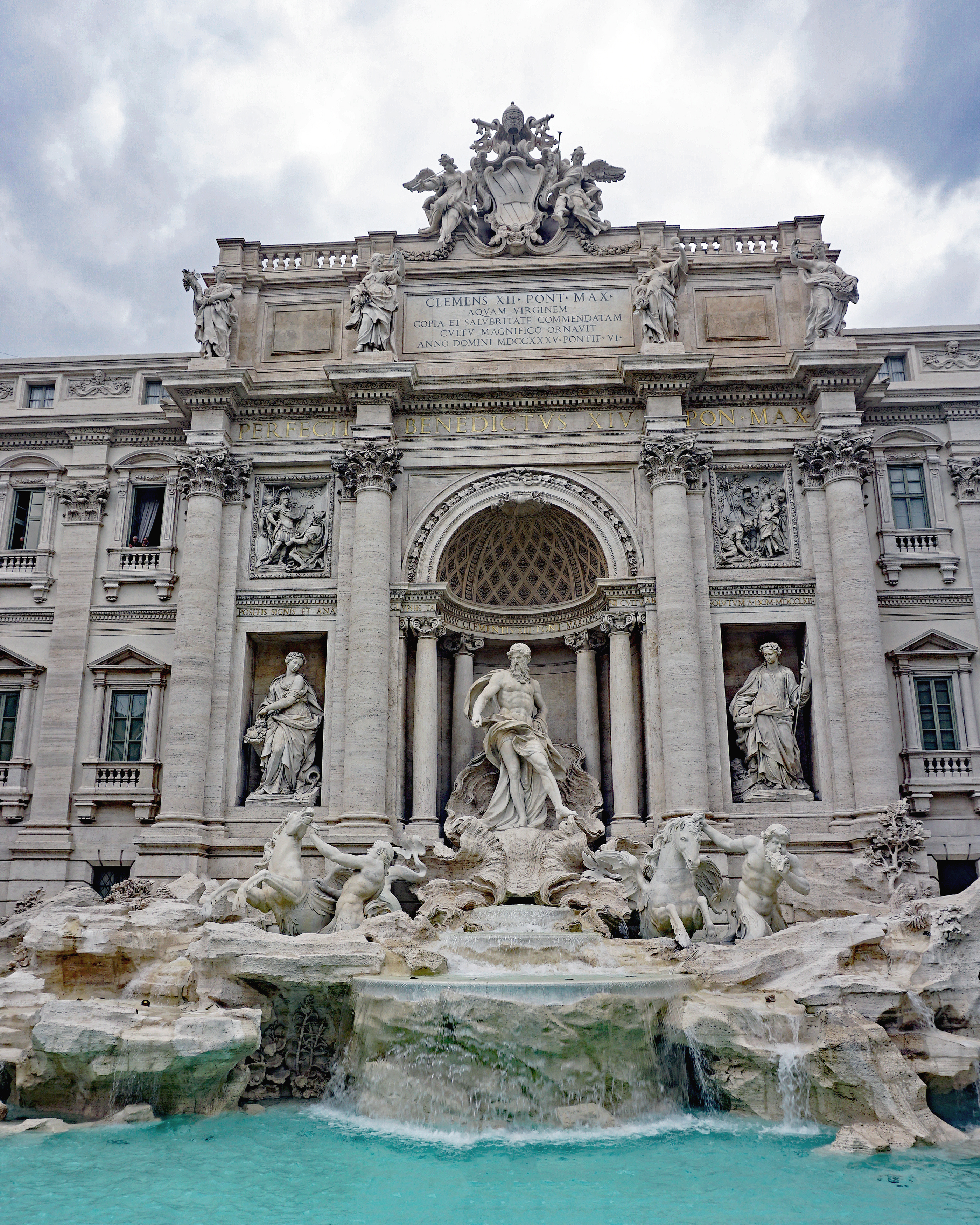 Fontana di Trevi, Rome.